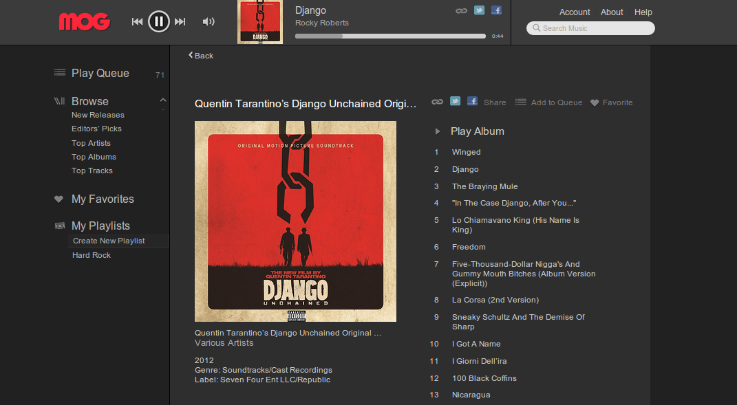 A screenshot of the new HTML5 web player, as of December 2012